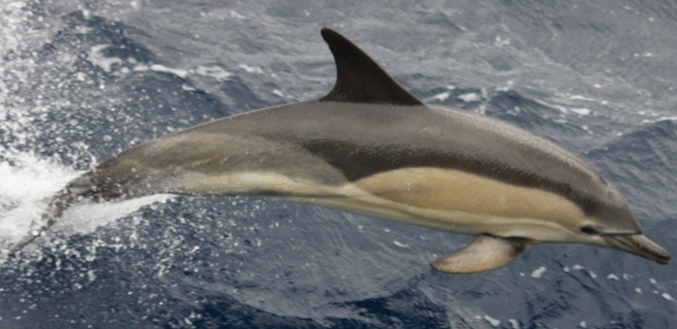 Common Dolphin in the Goban Spur area South of Ireland.